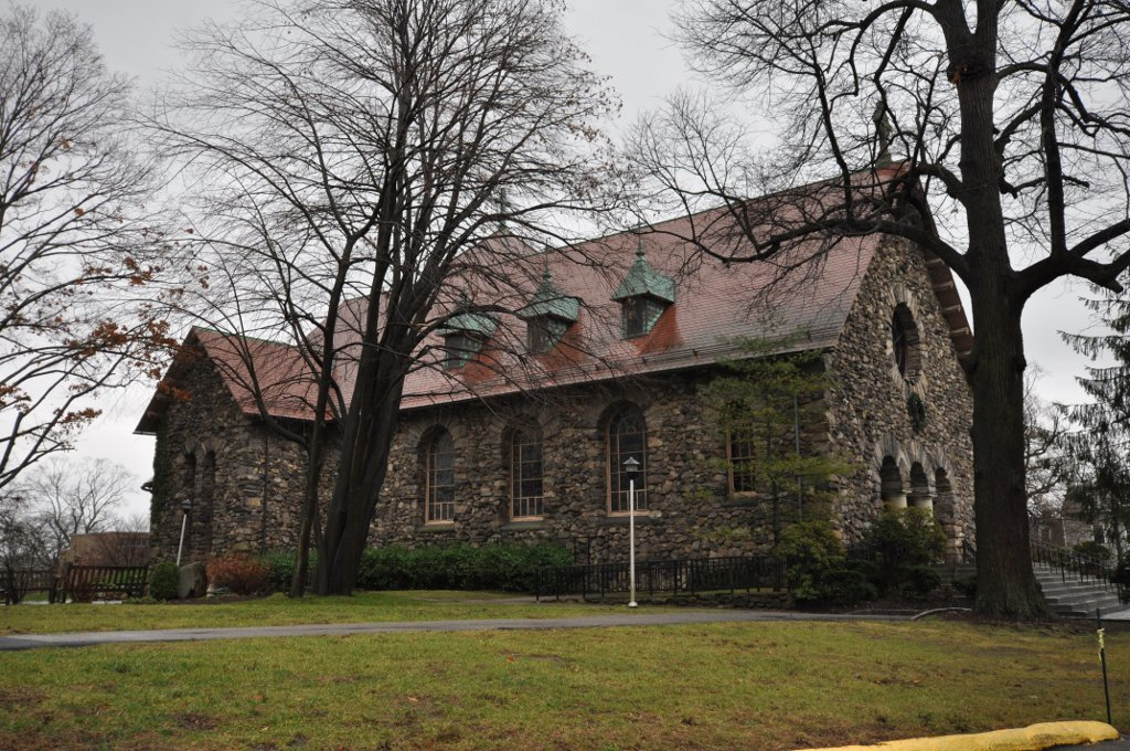 Chapel of the Good Counsel Complex, Pace University, White Plains, New York.